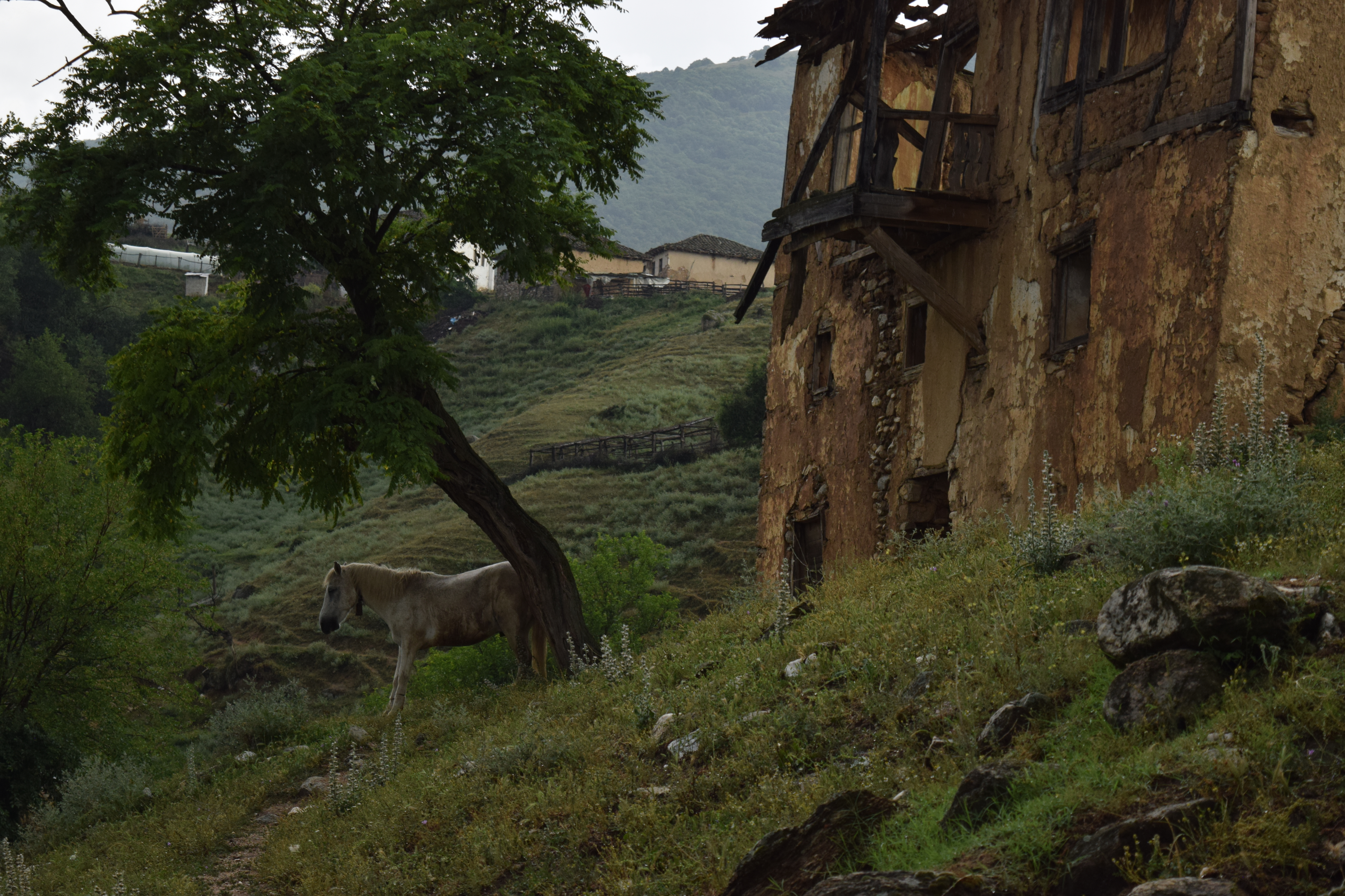 Old house in the village Omorani